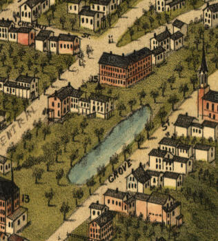 Bird's-eye View of Farmington, NH; detail from an 1877 panoramic map.